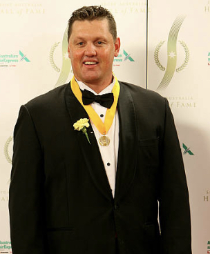 David Nilsson being excepted into the Australian Hall of Fame